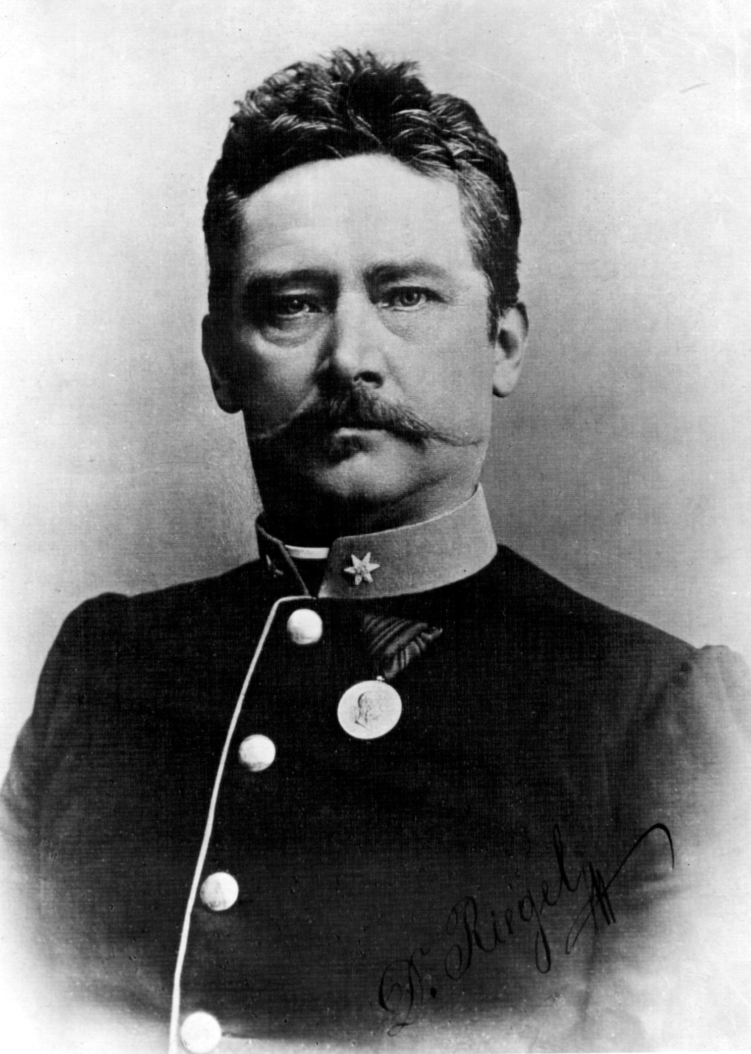 Dominik Riegel (1840 - 1920), Czech soldier